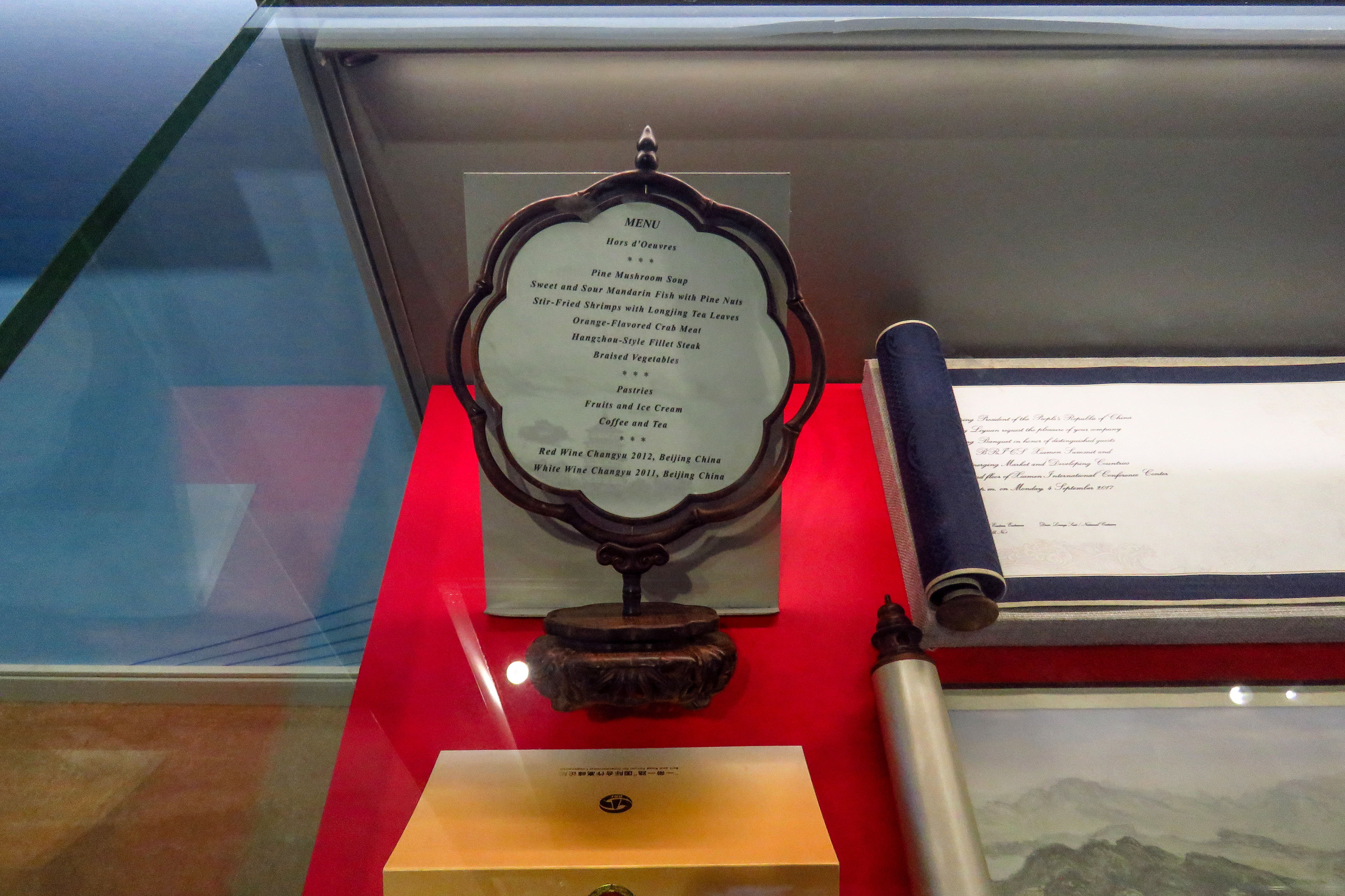 Just found out that this is the menu from G20 Hangzhou summit!